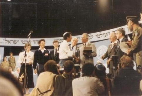 Shimon Peres with international youth bible quiz winner, Ohad Zechariyah, on Israel independence day (Yom Haatzmaut) 1985